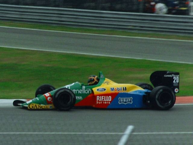 Thierry Boutsen driving for Benetton Formula at the 1988 Canadian Grand Prix.